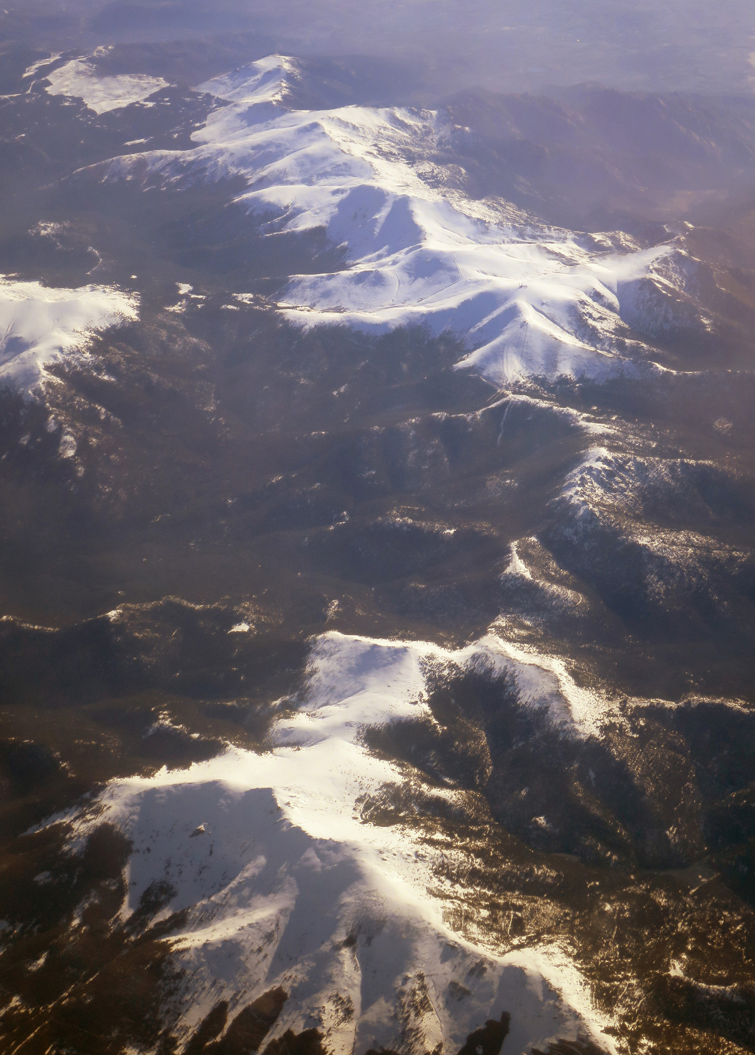 In the foreground is La Mujer Muerta, and in the distance is the Cuerda Larga. Both are branches of the Sierra de Guadarrama mountain range near Madrid.